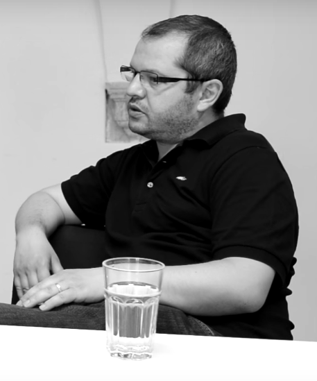 Corneliu Porumboiu.